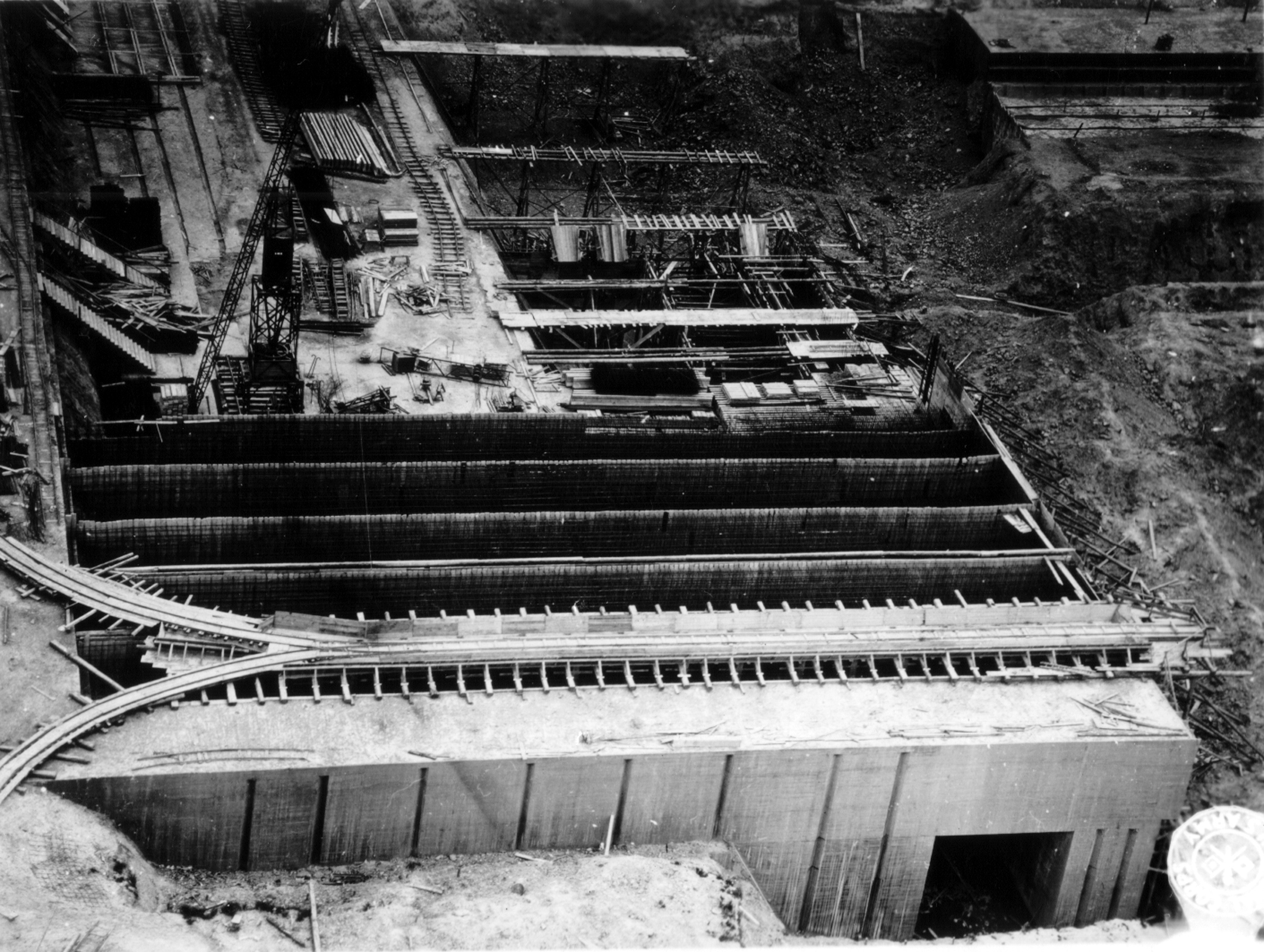 V2 rocket launch site in construction in Brix-Sottevast (1944)